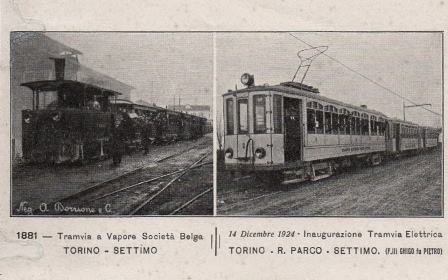 Torino-Settimo rolling stock